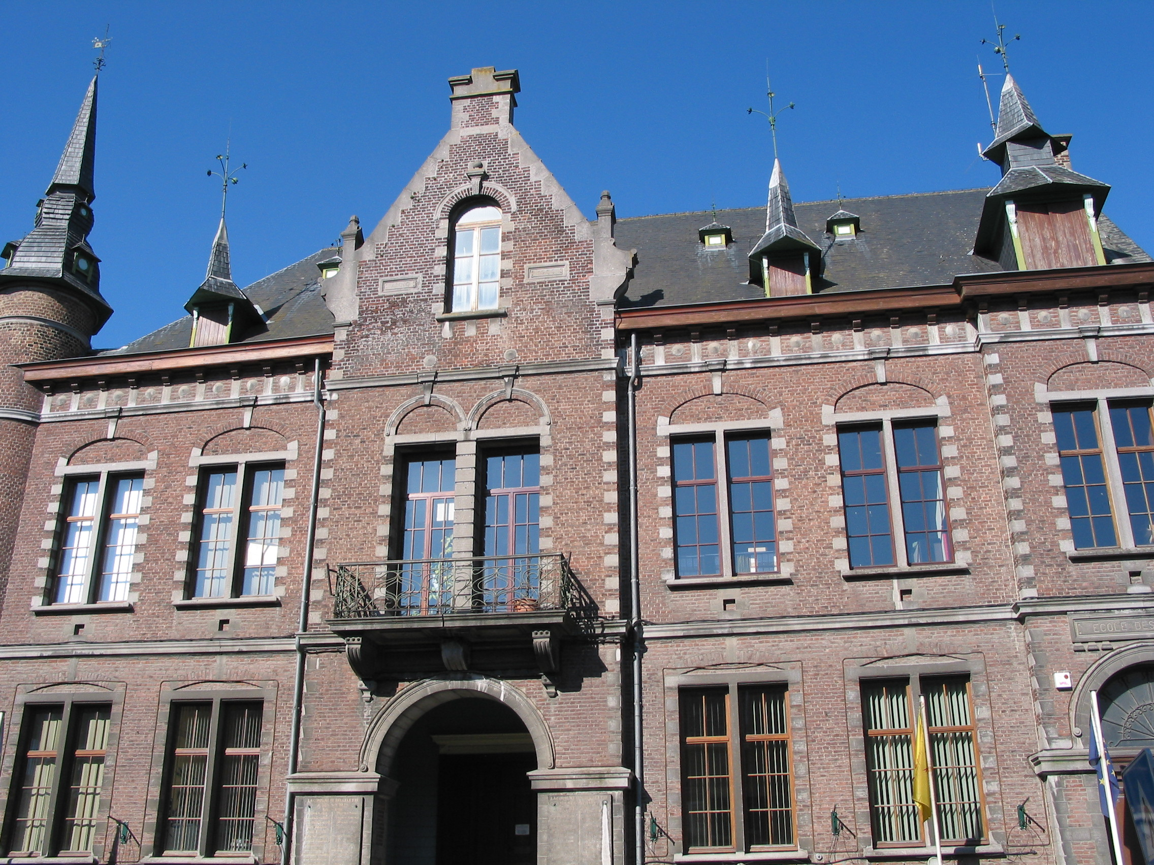 Brugelette (Belgium), rue Colonel aviateur Daumerie - The town hall and the church of the Holy Virgin (1898/1908 - architect: Eugene Bodson).